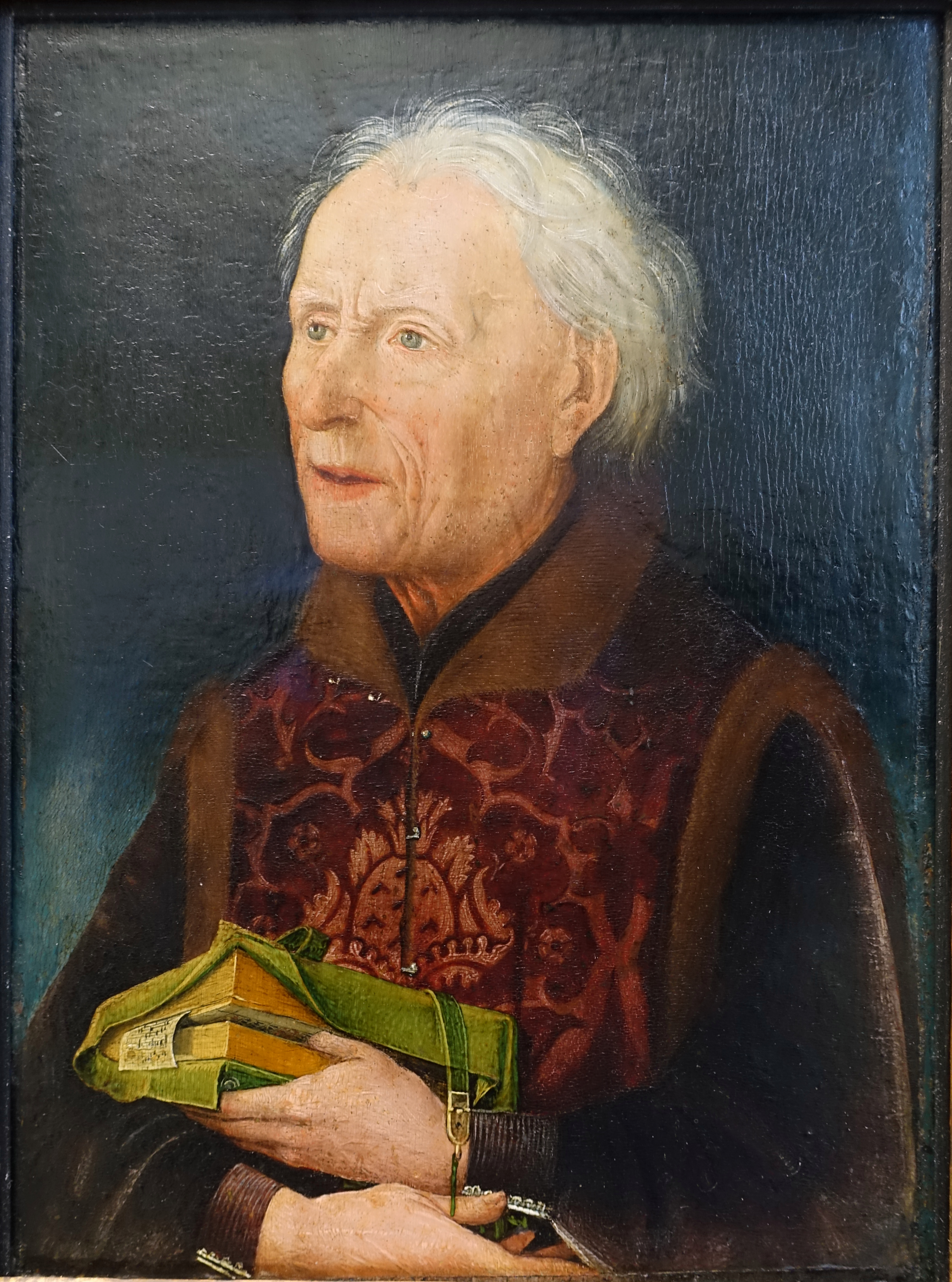 Exhibit in the Germanisches Nationalmuseum - Nuremberg, Germany.